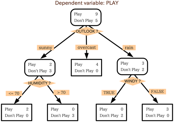 I myself made this figure. I guess the figure that had been lacked in Decision Tree is like this. Just better than nothing.